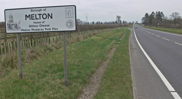 Entering the Borough of Melton along the A607 Melton Road.